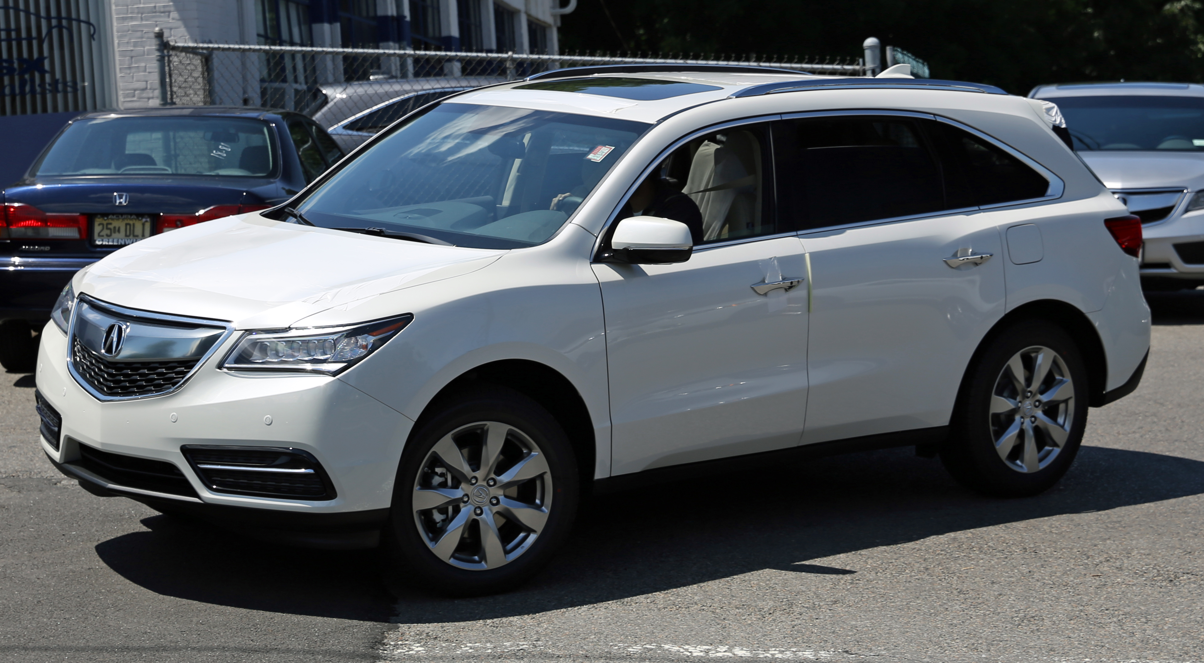 2014 Acura MDX, third generation. Front 3/4 left hand view.